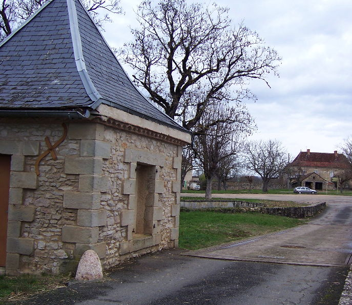 Public weighing scale in in town Assier in France.